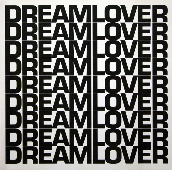 An alternative commercially released CD edition of "Dreamlover" by Mariah Carey